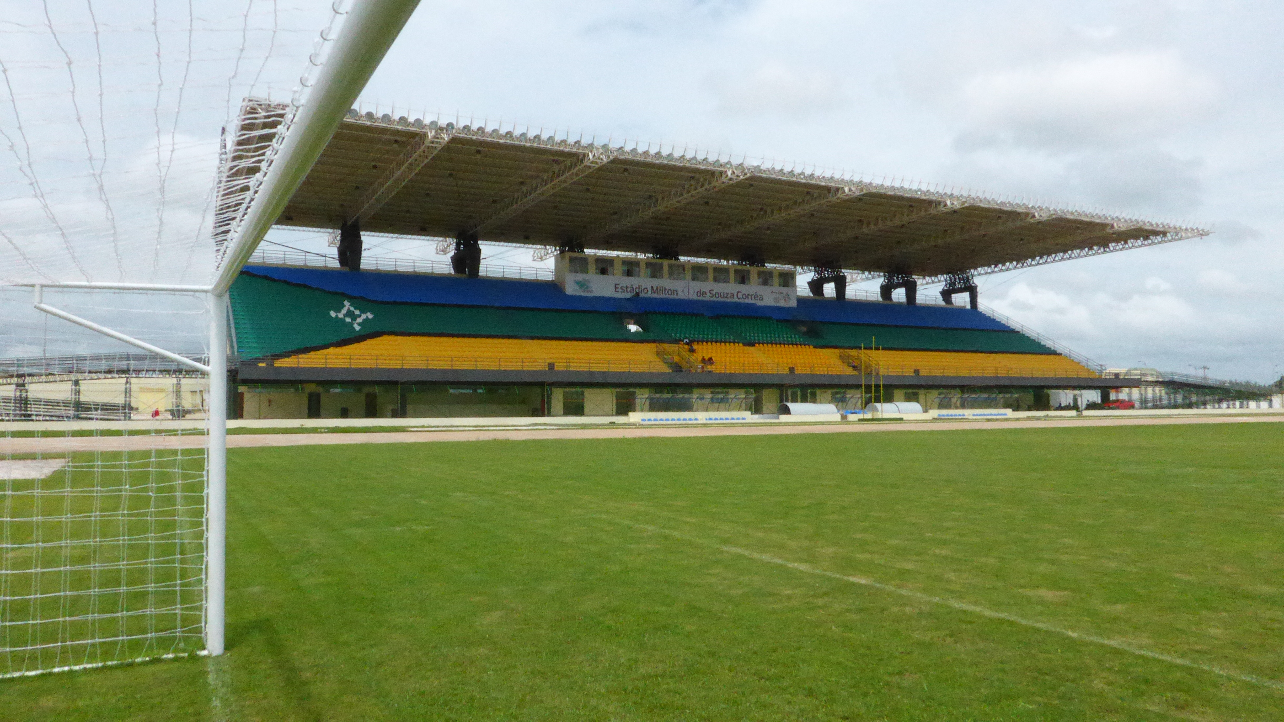 Estádio Milton Corrêa, usually known as Zerão, is a multi-purpose stadium located in Macapá, Brazil.